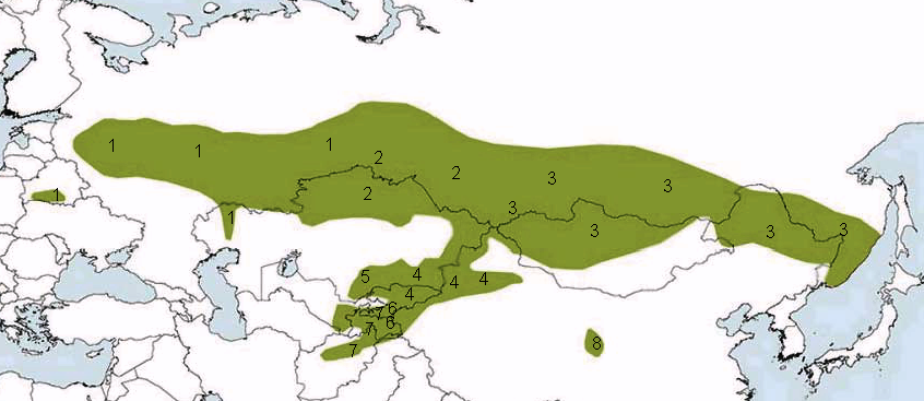 Cyanistes cyanus subspecies